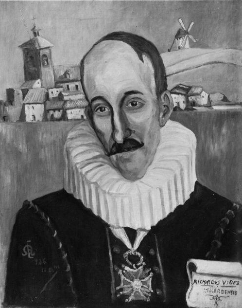 Spanish pianist Ricardo Viñes (1875-1943). Photograph of a portrait by Francisco Enríquez (18??-19??).